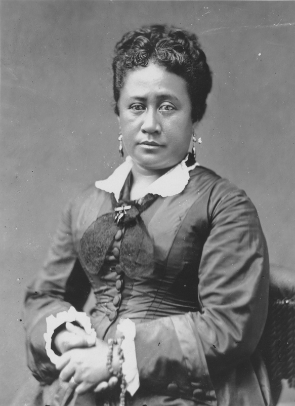 Queen Kapiʻolani (1834–1899).